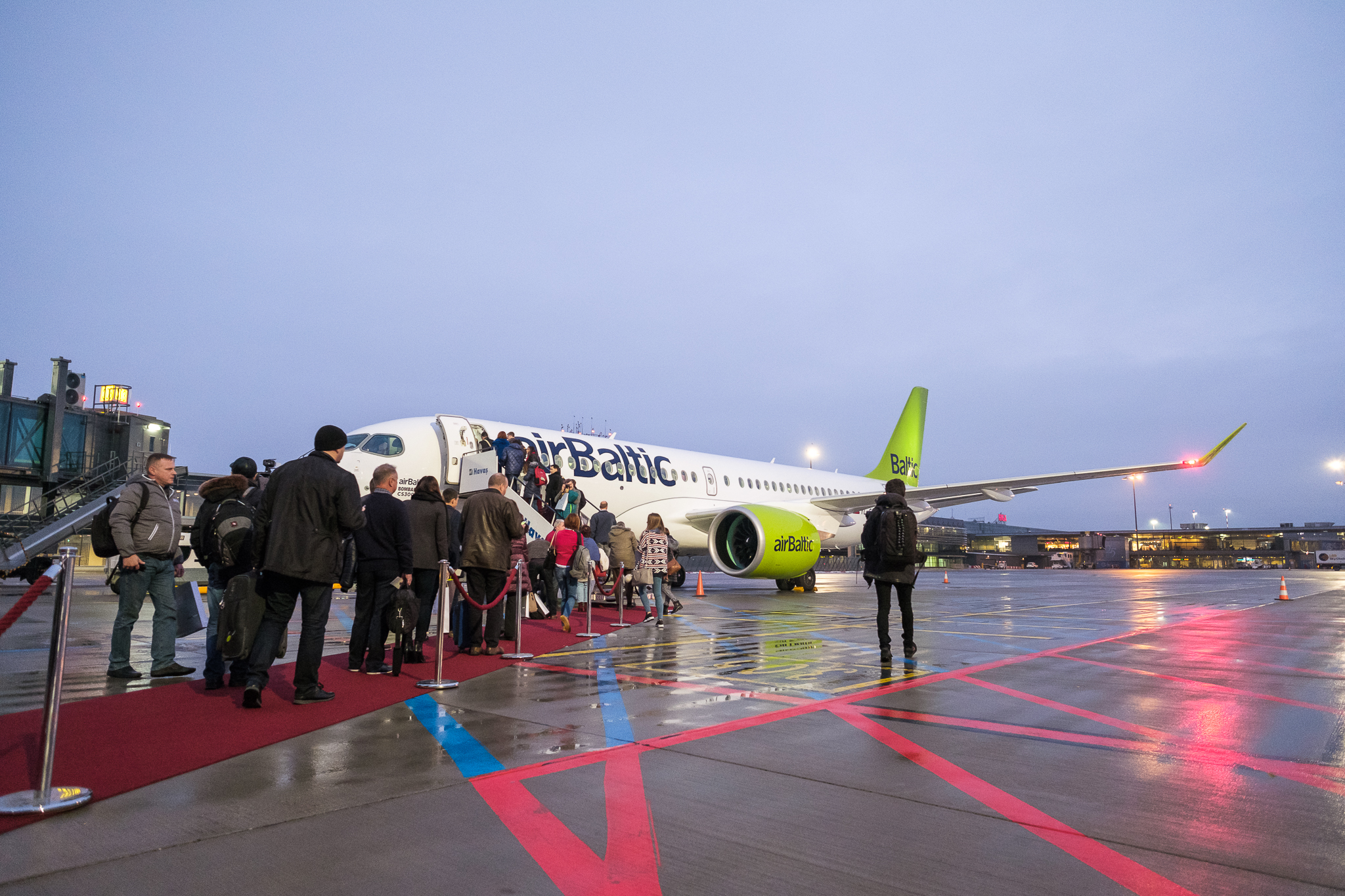 airBaltic CS300 first commercial flight